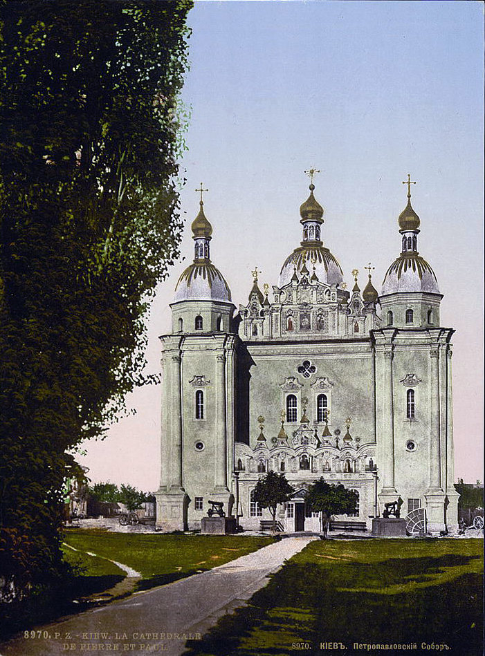 19th-century photo of the Kiev Military Cathedral, Kiev, Russian Empire (now Ukraine). Print no. "8968"